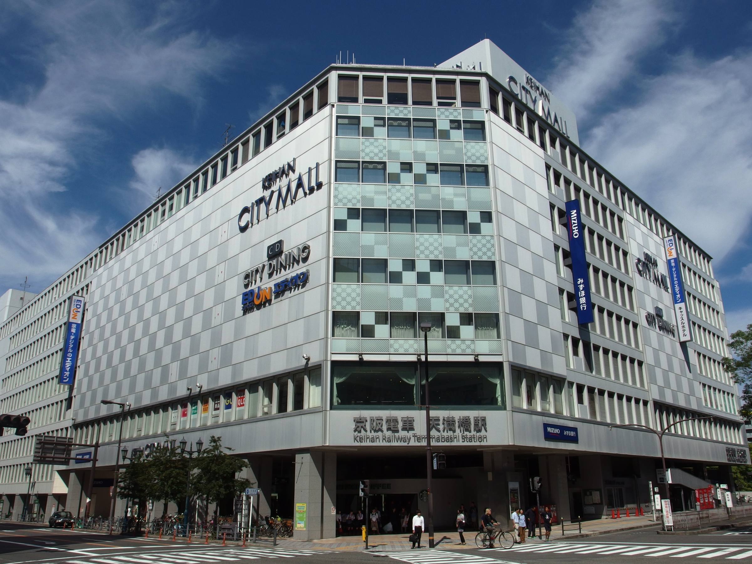 Temmabashi Station ,Osaka, Osaka Prefecture, Japan